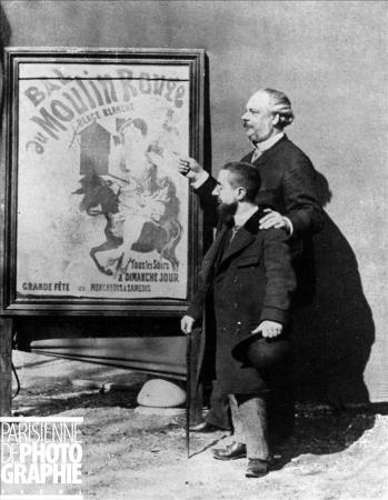 Toulouse-Lautrec and Tremolada, assistant of Zidler, manager of Moulin-Rouge. Paris, 1892.